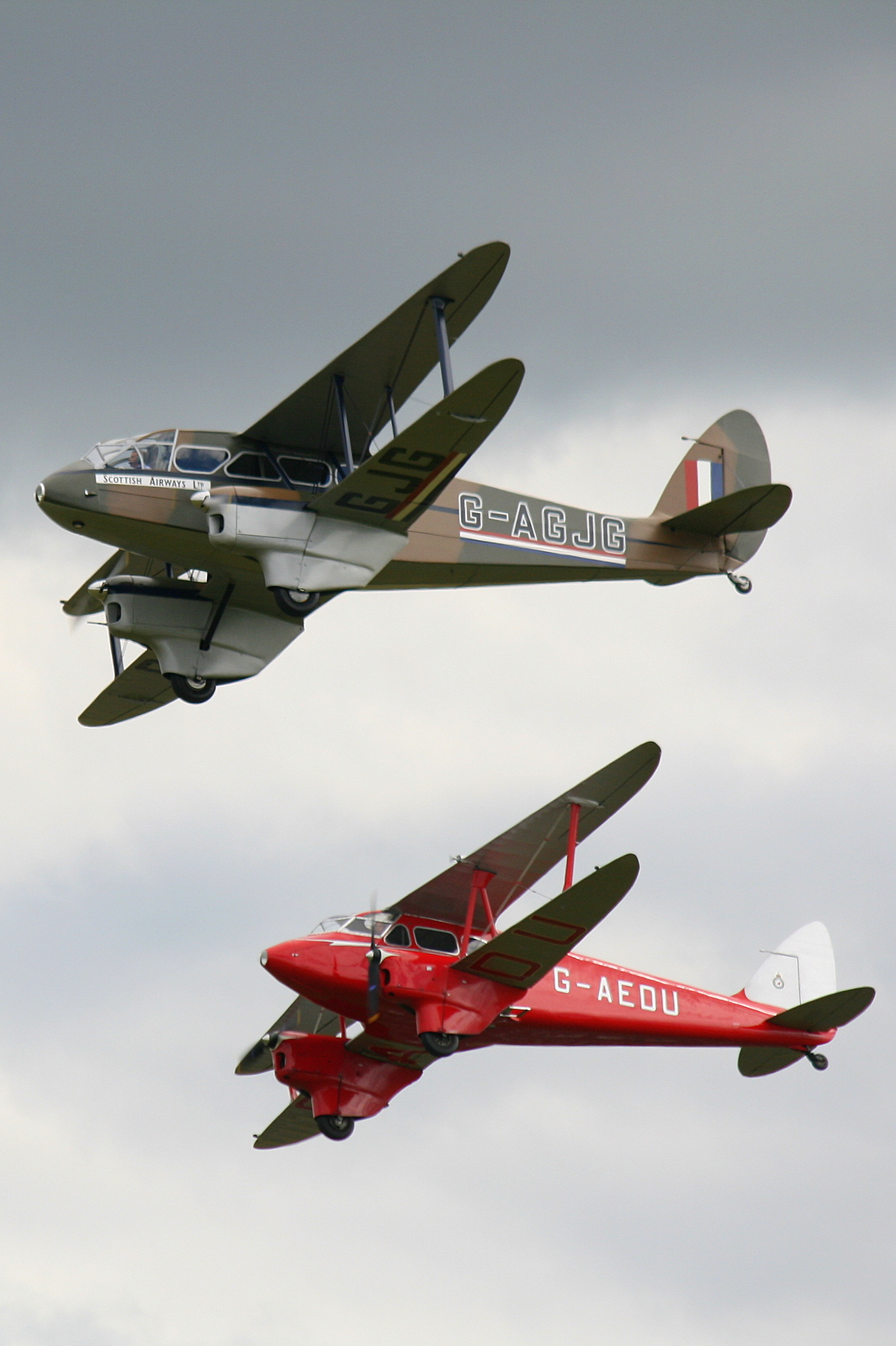 De Havilland DH.89 and DH.90 at the 2008 'Flying Legends' air show in Duxford, UK.